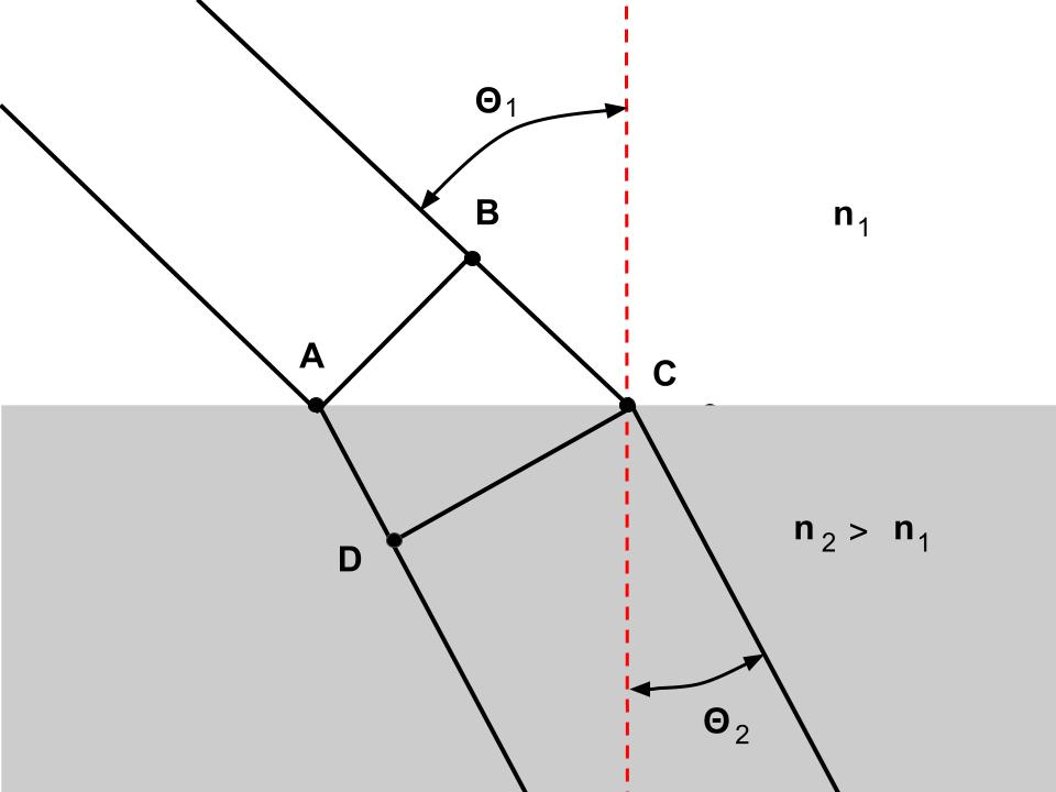 Derivation of Snell's law of refraction of wave front going into denser medium